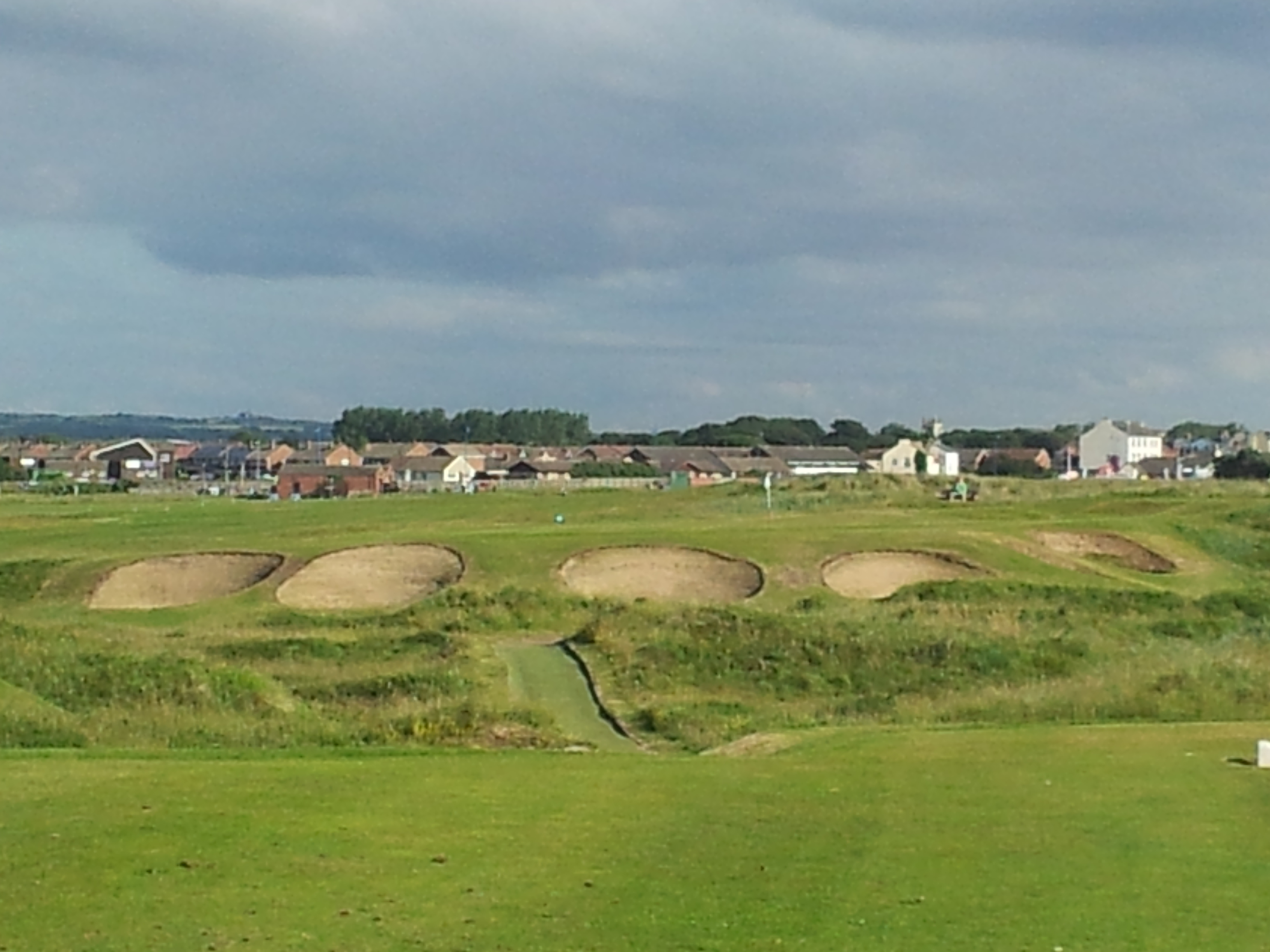 This golf hole is named after the founder of Seaton Carew Golf Club Doctor McCuaig. Seaton Carew GC established in 1874 is the 10th oldest Golf club in England. This also happens to be a very challenging par 3 hole surrounded as it is by 8 bunkers. This photgraph is intended for use in the North East Of England wikipedia article.